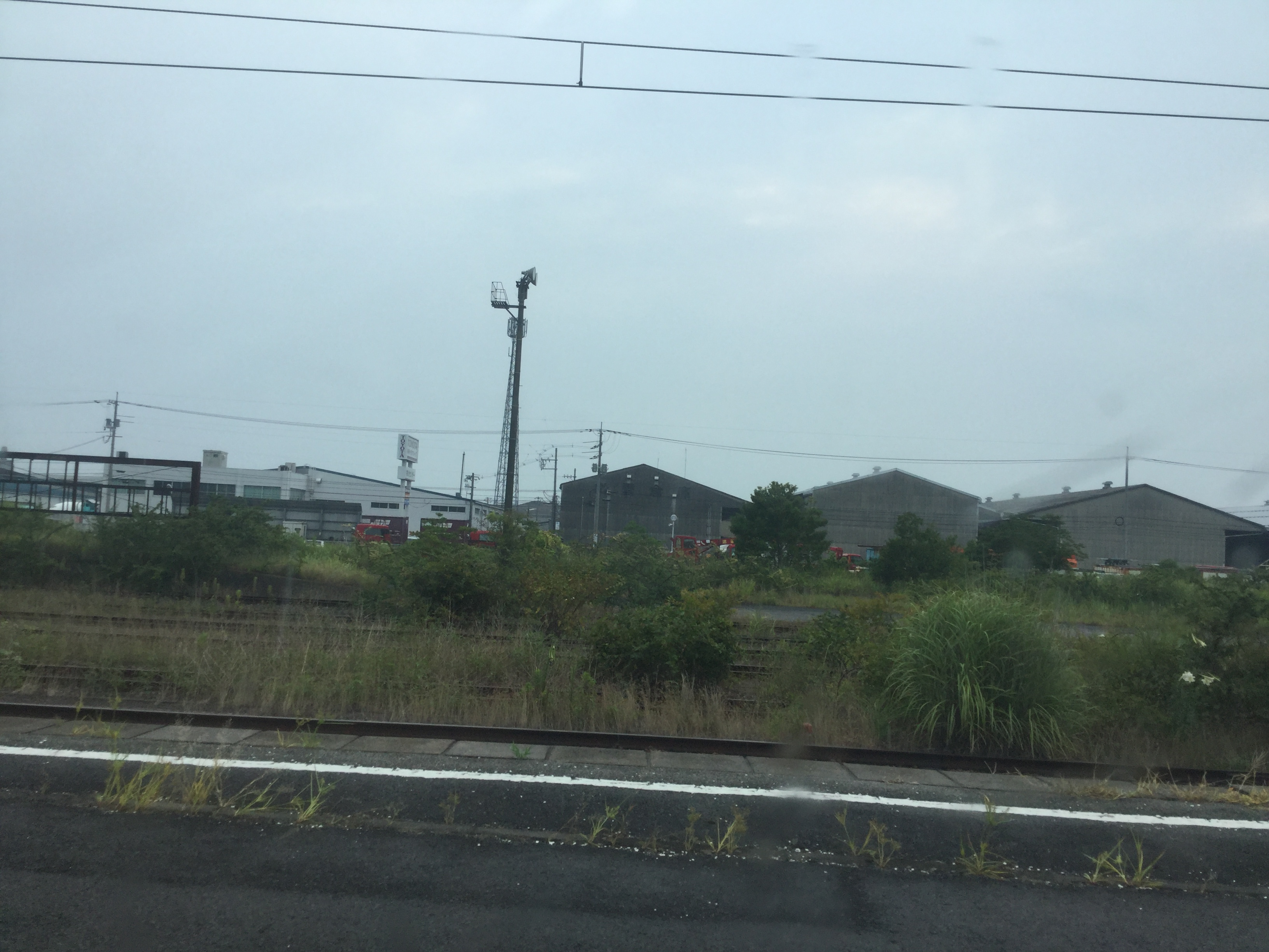 東松江駅のホーム (Higashi Matsue Station)